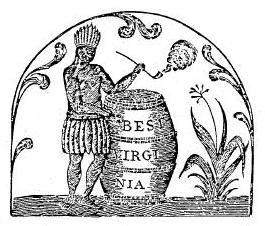 Symbol of Lorillard Tobacco and Snuff, Manhattan, New York, 18th century